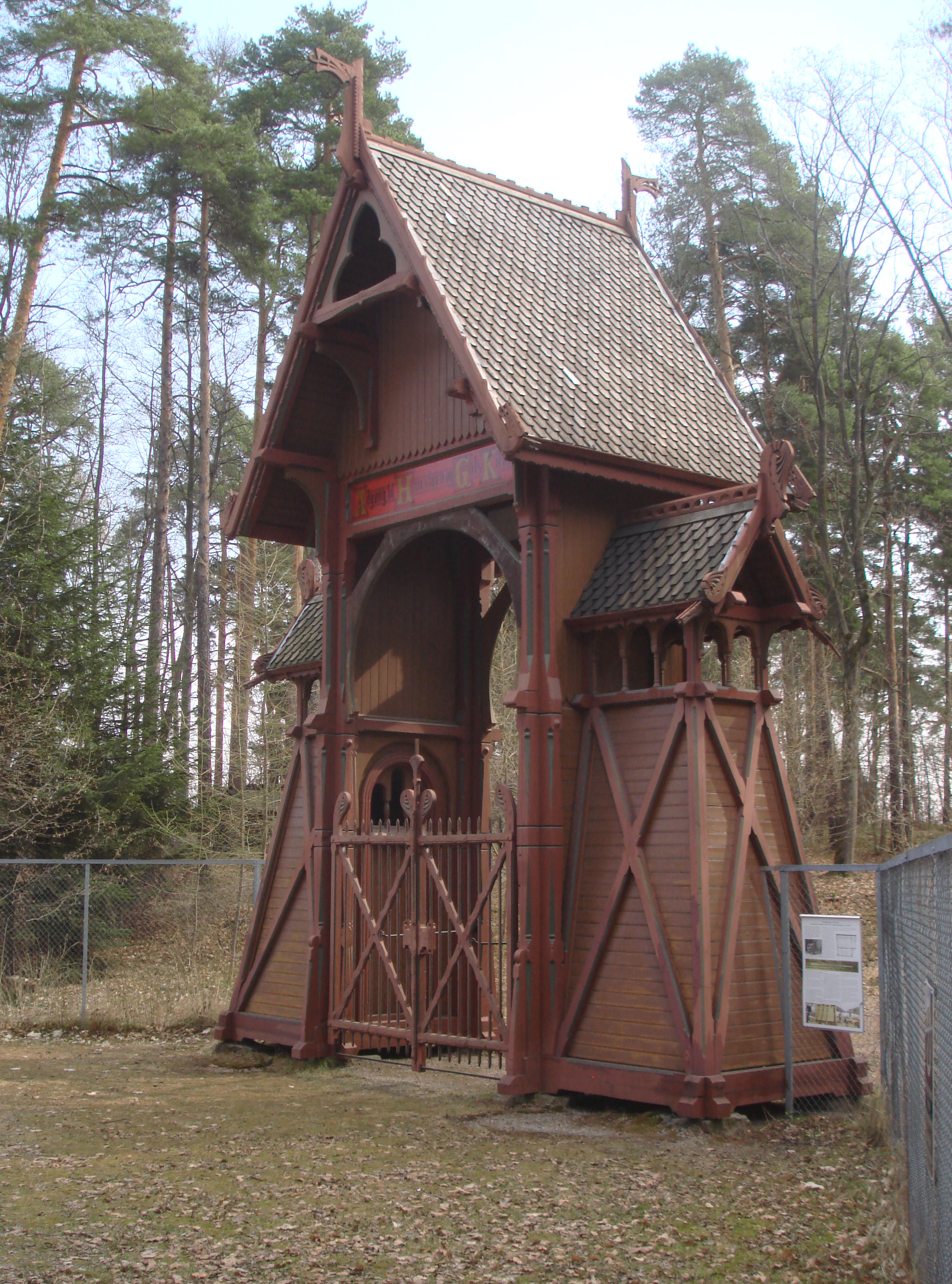 Entrance to King Oscar's open air museum at Bygdøy, architect Holm Munthe 1883.